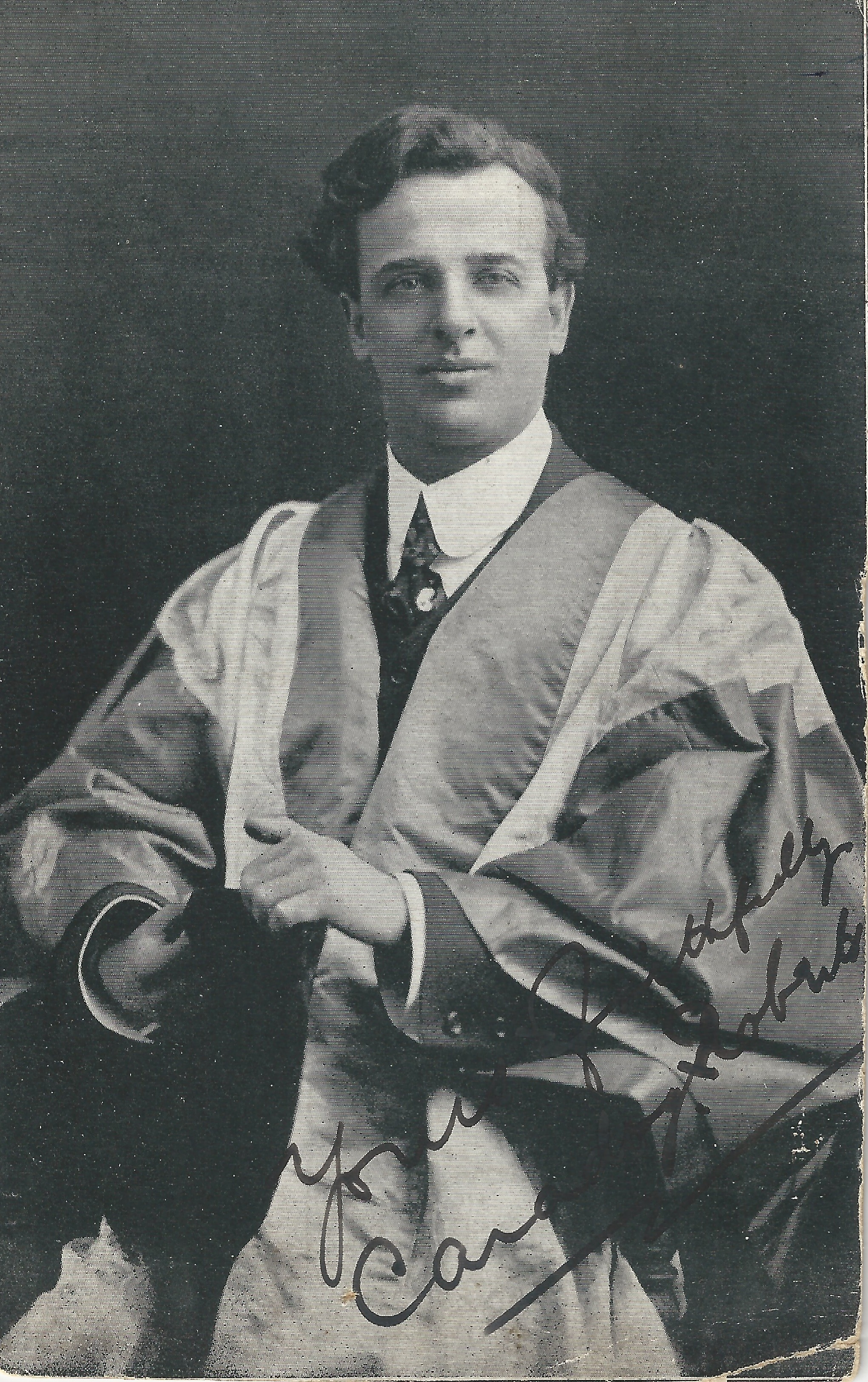 Postcard from Caradog Roberts to Rachel Jenkins